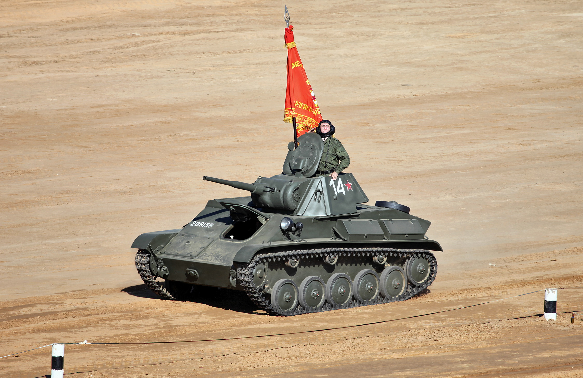 The T-70 was a light tank used by the Red Army during World War II